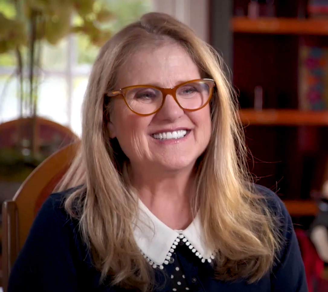 Nancy Cartwright in a talk with North Valley Regional Chamber of Commerce CEO Nikki Basi, 2019